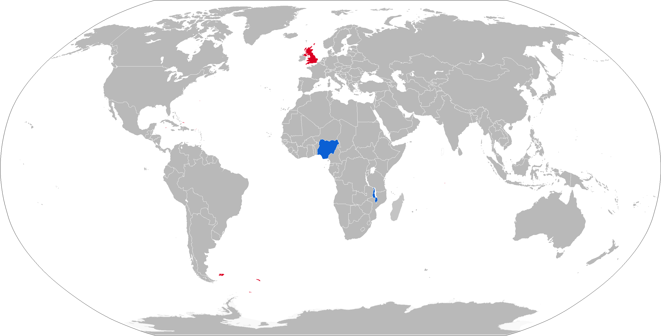 Map of Fox operators in blue with former operators in red